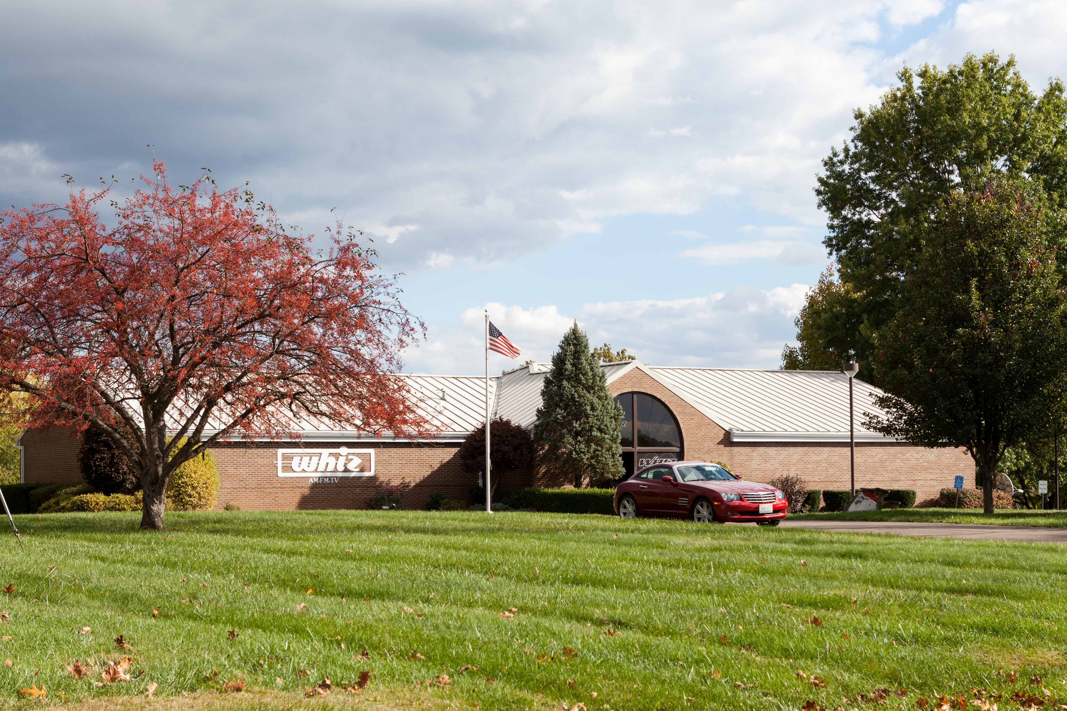 Studio building for the WHIZ media group, including WHIZ (AM), WHIZ-TV, WHIZ-FM, and WZVL-FM, 629 Downard Road, Zanesville, Ohio